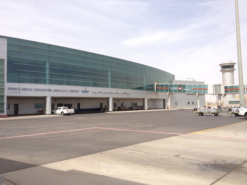 This is the view of the new Terminal and Control Tower of the Yanbu Airport.